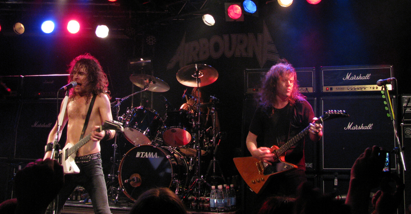 Australian hard rock band Airbourne on No Guts No Glory Tour at Tampereen Klubi on 18th of March, 2010.